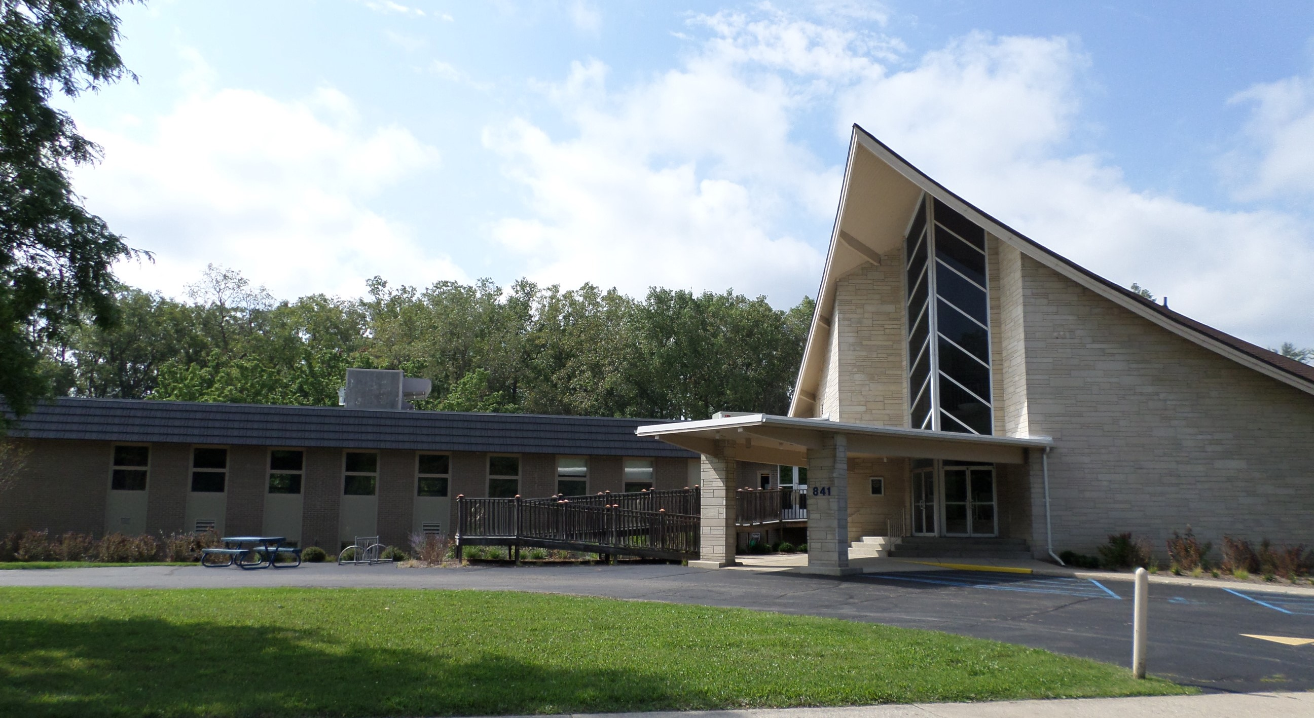 The University Reformed Church, located at 841 Timberlane St, East Lansing, MI